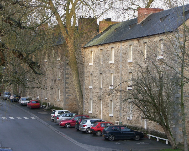 Les immeubles collectifs de Fonaine-Daniel